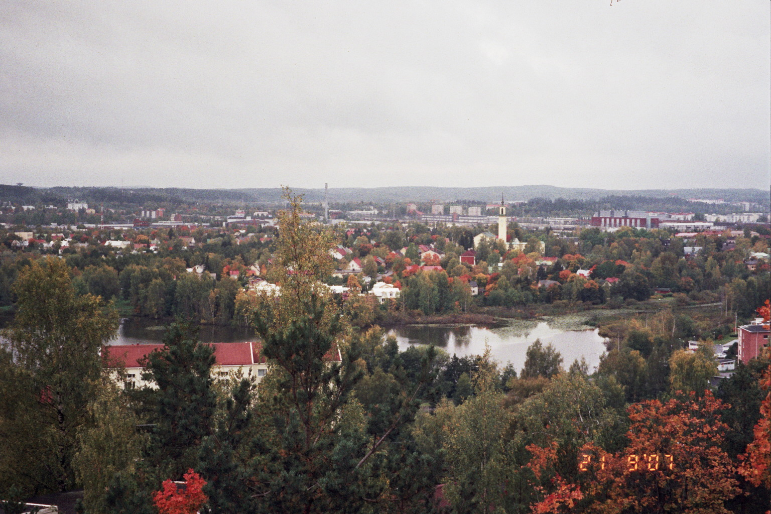 Viinikka, a district of the city of Tampere in Finland, in 2007. Photographed from the Kalevankangas cemetery.